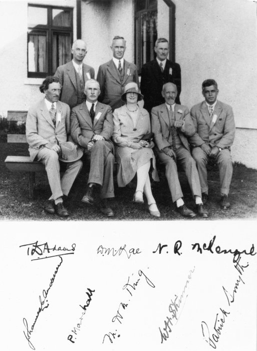 A gathering of teachers and scholars at a New Zealand Teachers' Summer School, New Plymouth, 1930. Duncan Rae (back row, centre), founder of the New Zealand Teachers' Summer School Society, is pictured with popular lecturer Johannes Carl Andersen (seated, left), geologist Patrick Marshall and principal Mary King (seated second and third from left), historian William Skinner (fourth from left), and teacher Patrick Smyth (seated, right).